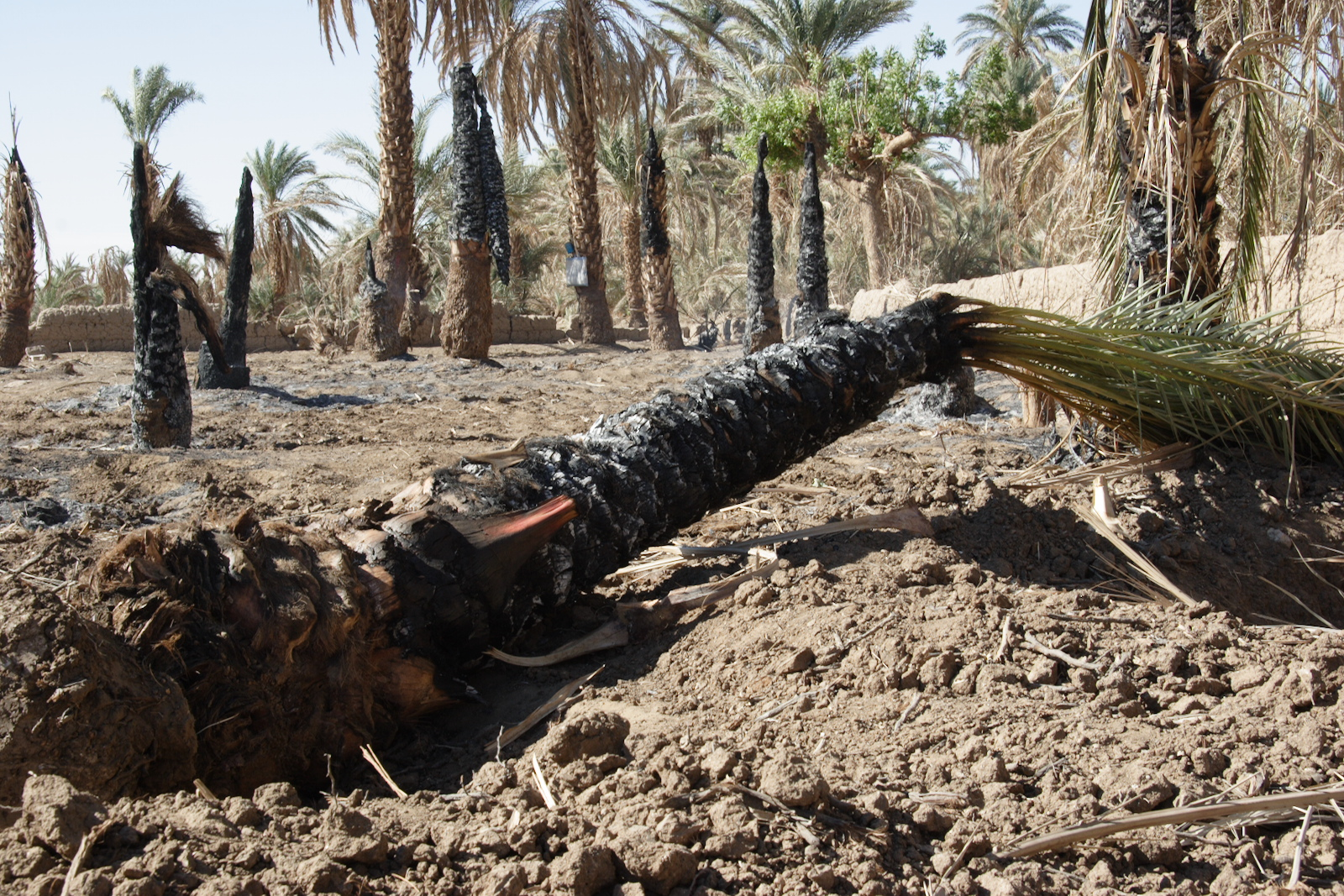 Ahead of the flooding of the Hamdab High Dam the Manasir are moved from their homeland Dar al-Manasir. During their relocation, their villages are destroyed and their cultivated palm trees are compensated (see red color on the trunk), partly uprooted and burned to prevent them from returning.